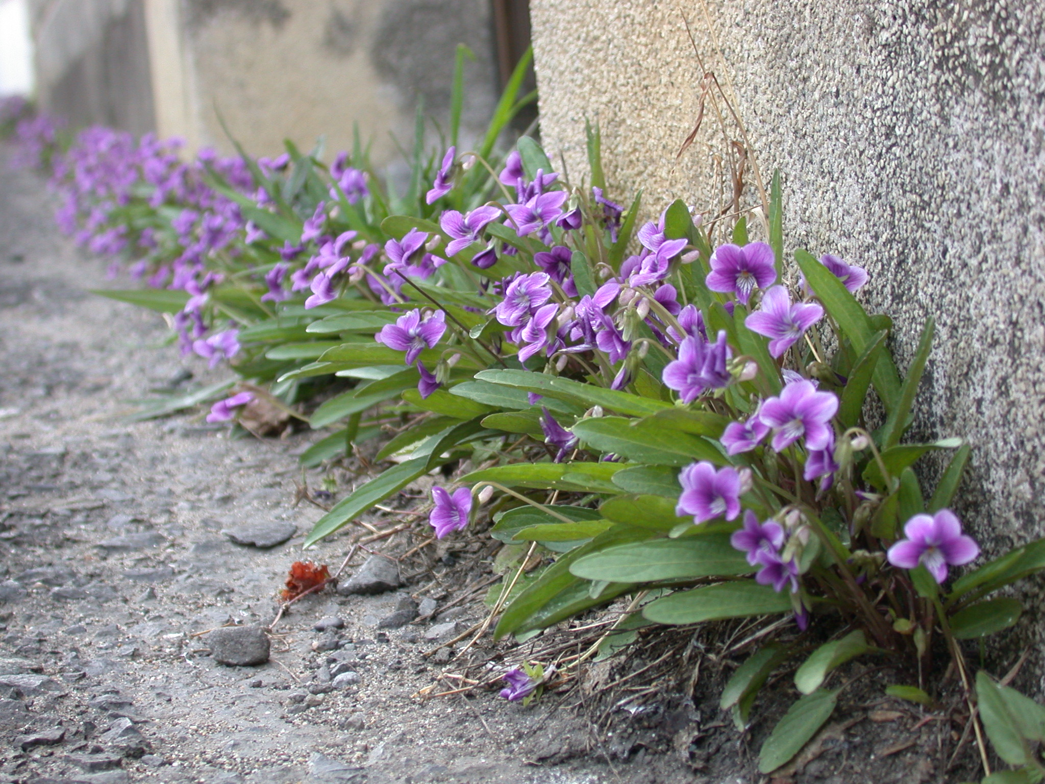 Viola mandshurica(Violaceae) Japanese name:Sumire Date;2008,03,22;Tanabe city, Wakayama prefecture, Japan Author;Keisotyo